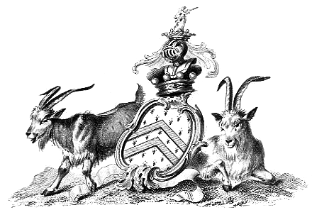 Coat of Arms of the Baron Bagot, featuring the Bagot goat.